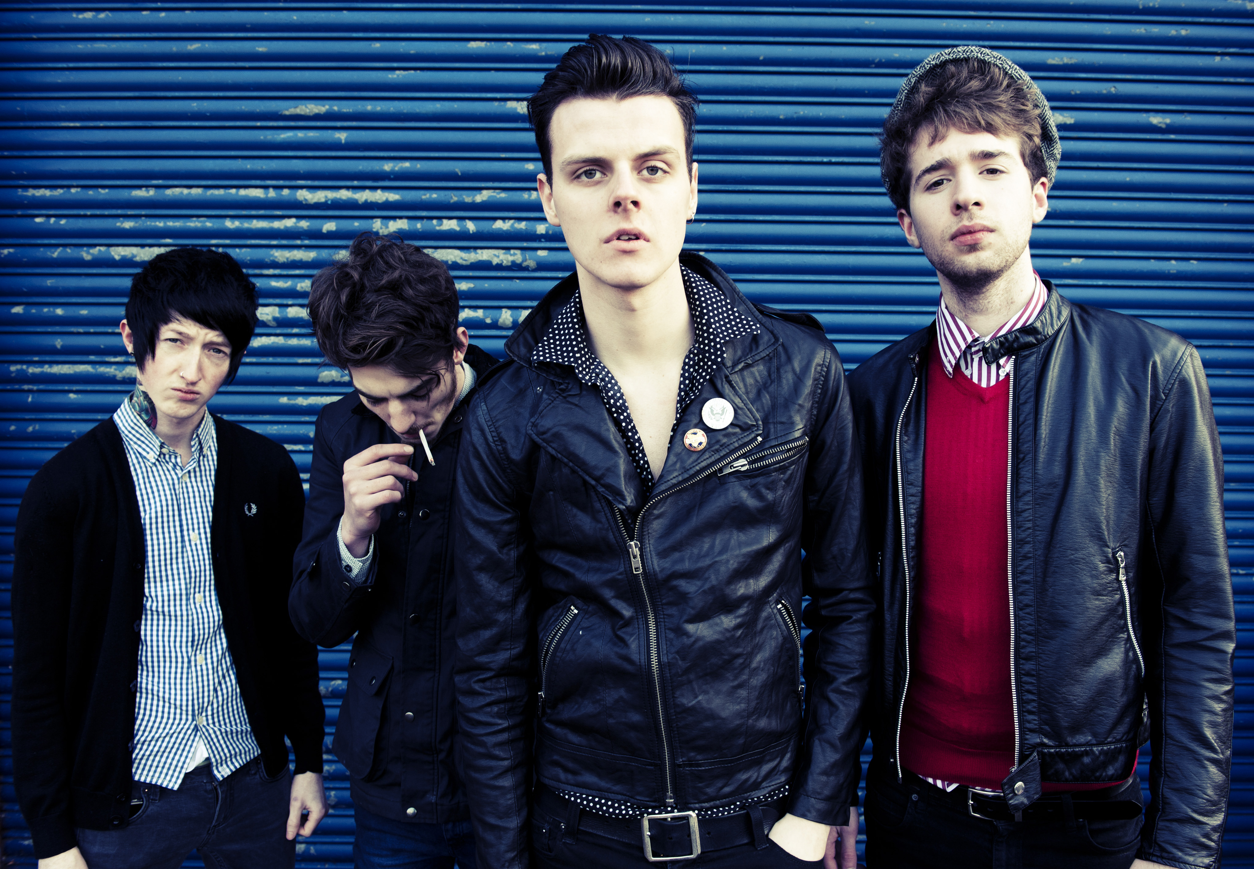 Promotional photo of the British rock band Sharks, circa 2008–2011. Left to right: bassist Cris O'Reilly, drummer Sam Lister, singer/guitarist James Mattock, and guitarist Andrew Bayliss.